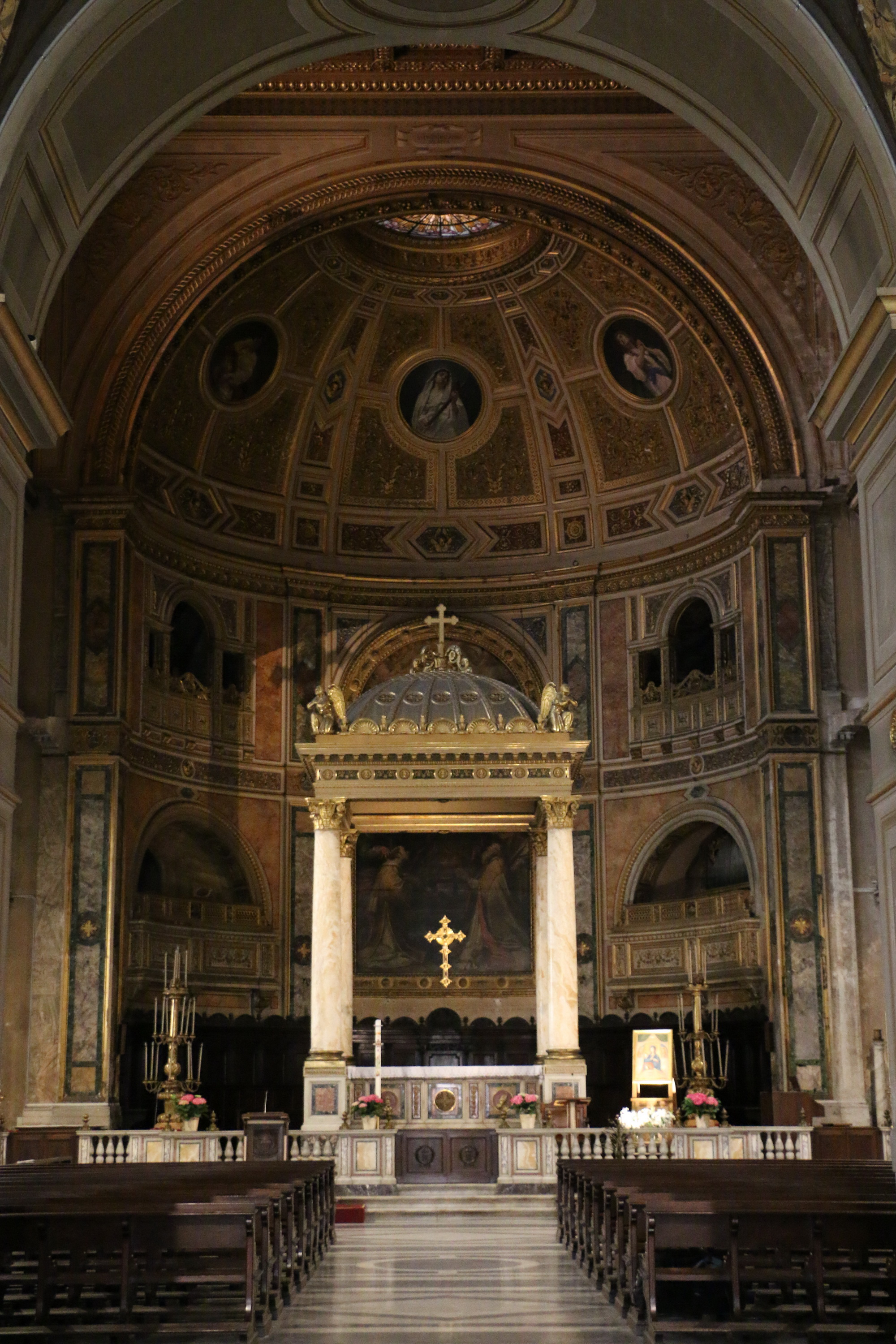 Chiesa di San Lorenzo in Damaso, Lazio, Italy Church of Saint Lawrence in Damaso Native nameBasilica di San Lorenzo in DamasoLocationRome, Lazio, ItalyCoordinates41° 53′ 48″ N, 12° 28′ 18″ E Authority control GND: 4740745-1